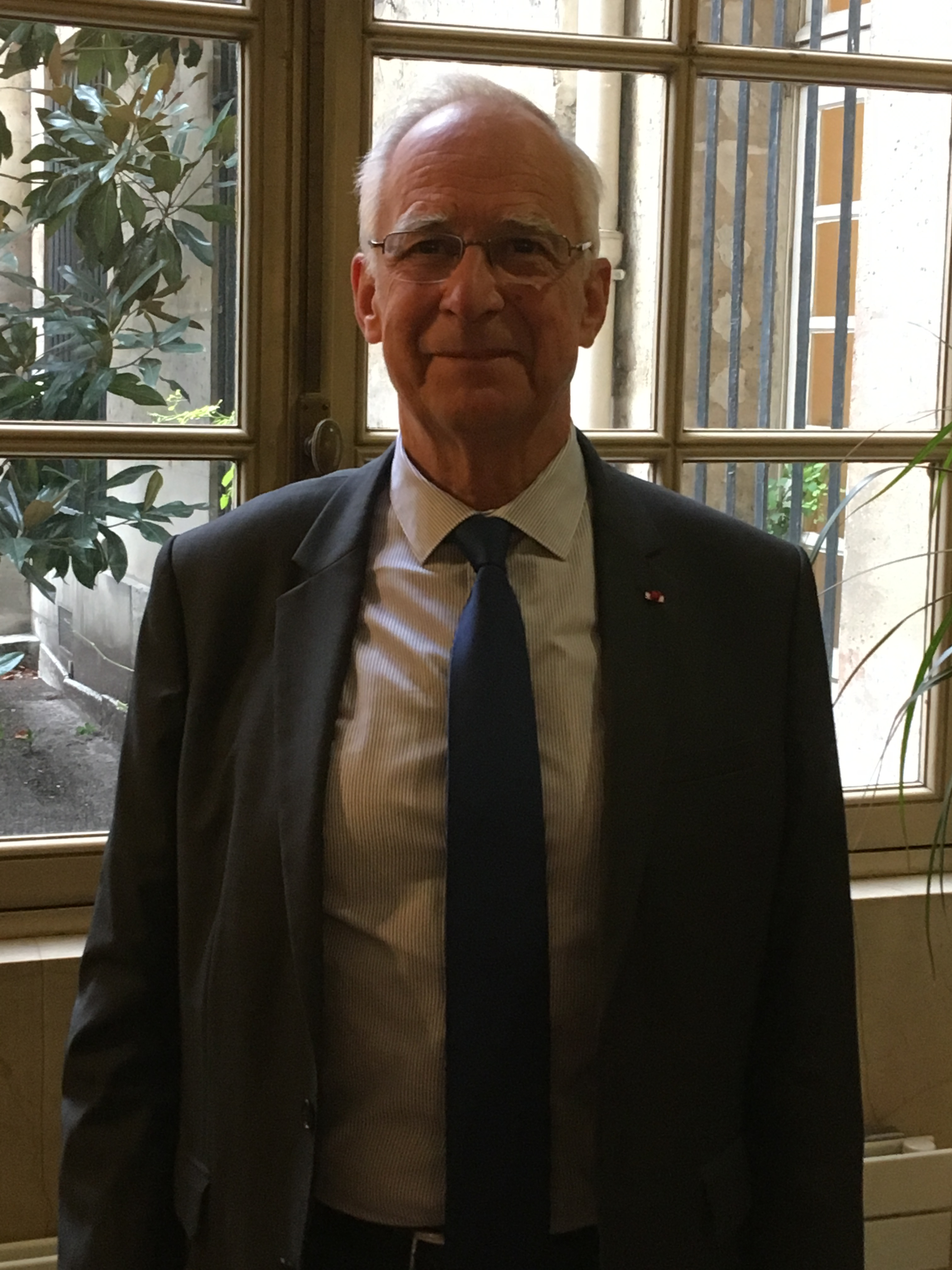 Pierre Corvol, member of the french Académie des sciences